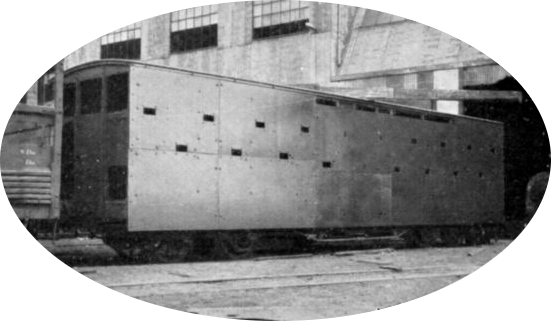 Armoured train - South Africa - 1914 - Project Gutenberg eText 18334 MUCH USED AGAINST SOUTH AFRICAN REBELS: A TRUCK OF AN ARMOURED TRAIN, AT BLOEMFONTEIN. Armoured trains worked by the South African Engineer Corps have done useful service in the operations against the rebels. The truck in the photograph, it will be seen, is loop-holed. The Project Gutenberg EBook of The Illustrated War News, Number 21, Dec. 30, 1914, by Various ==